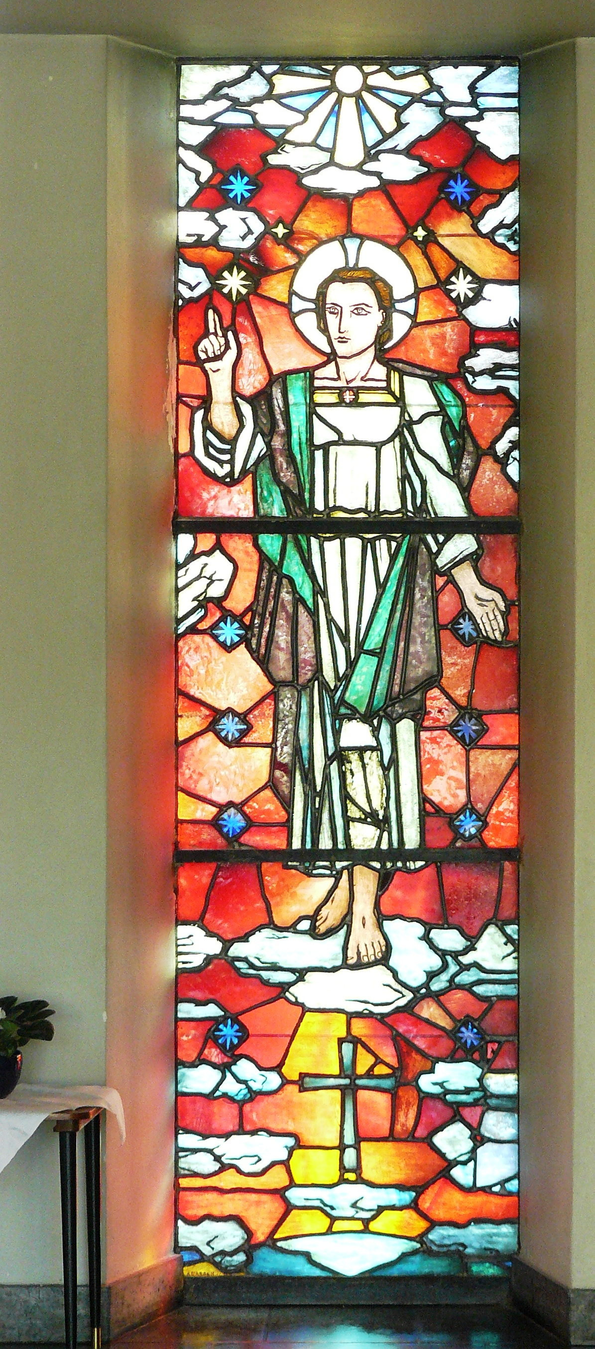 Tonsen church, Oslo – window with stainglasspicture